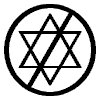 Symbol of antisemitism